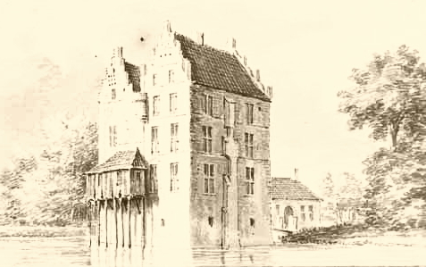 Castle Zwanenburg bij Vorchten, The Netherlands.